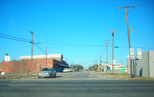 Downtown Malone, Texas